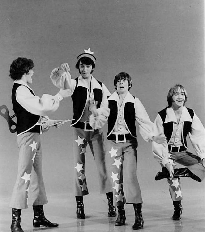 Photo from The Monkees 1969 television special 33 1/3 Revolutions Per Monkee.